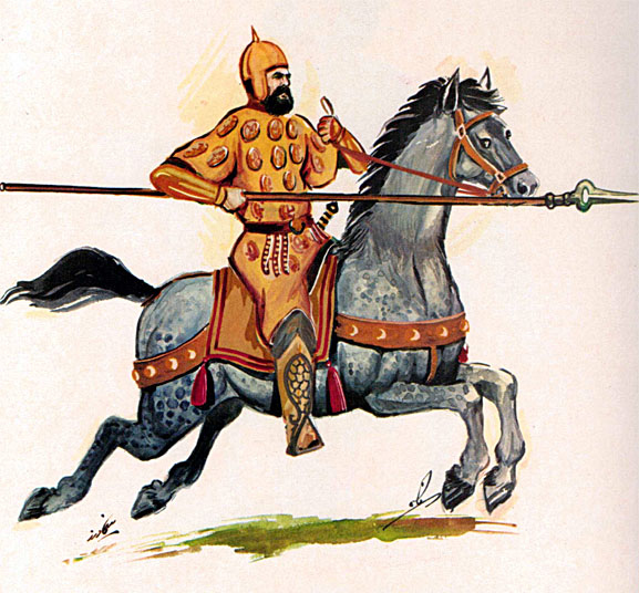 Iranian Daylaman (Buyid/Ziarid) soldier